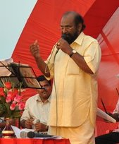 kerala sangeethanataka akademi award winner KPAC CHANDRASEKHARAN